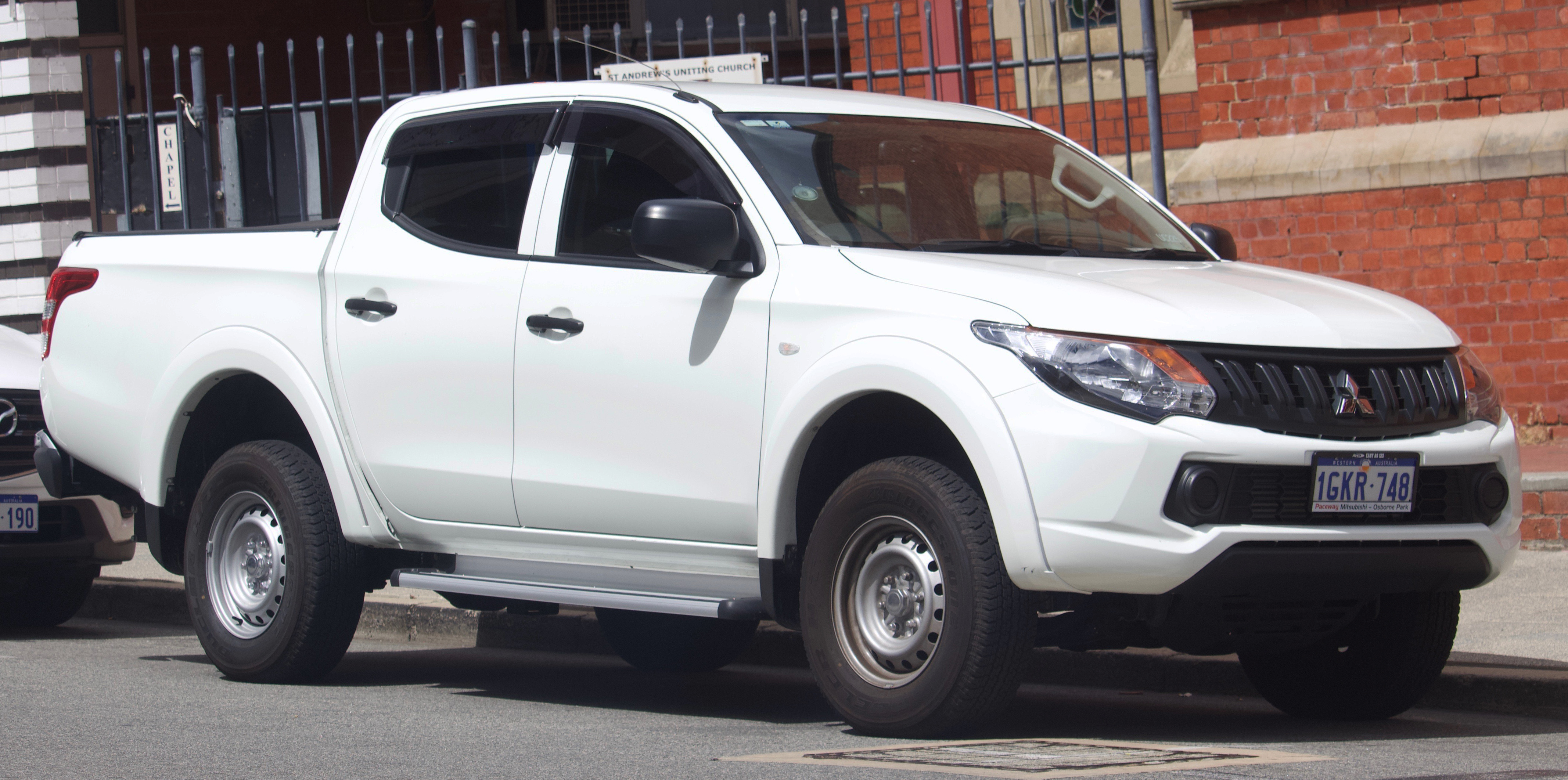 2017 Mitsubishi Triton (MQ MY17) GLX Double Cab utility. Photographed in Perth, Western Australia, Australia.